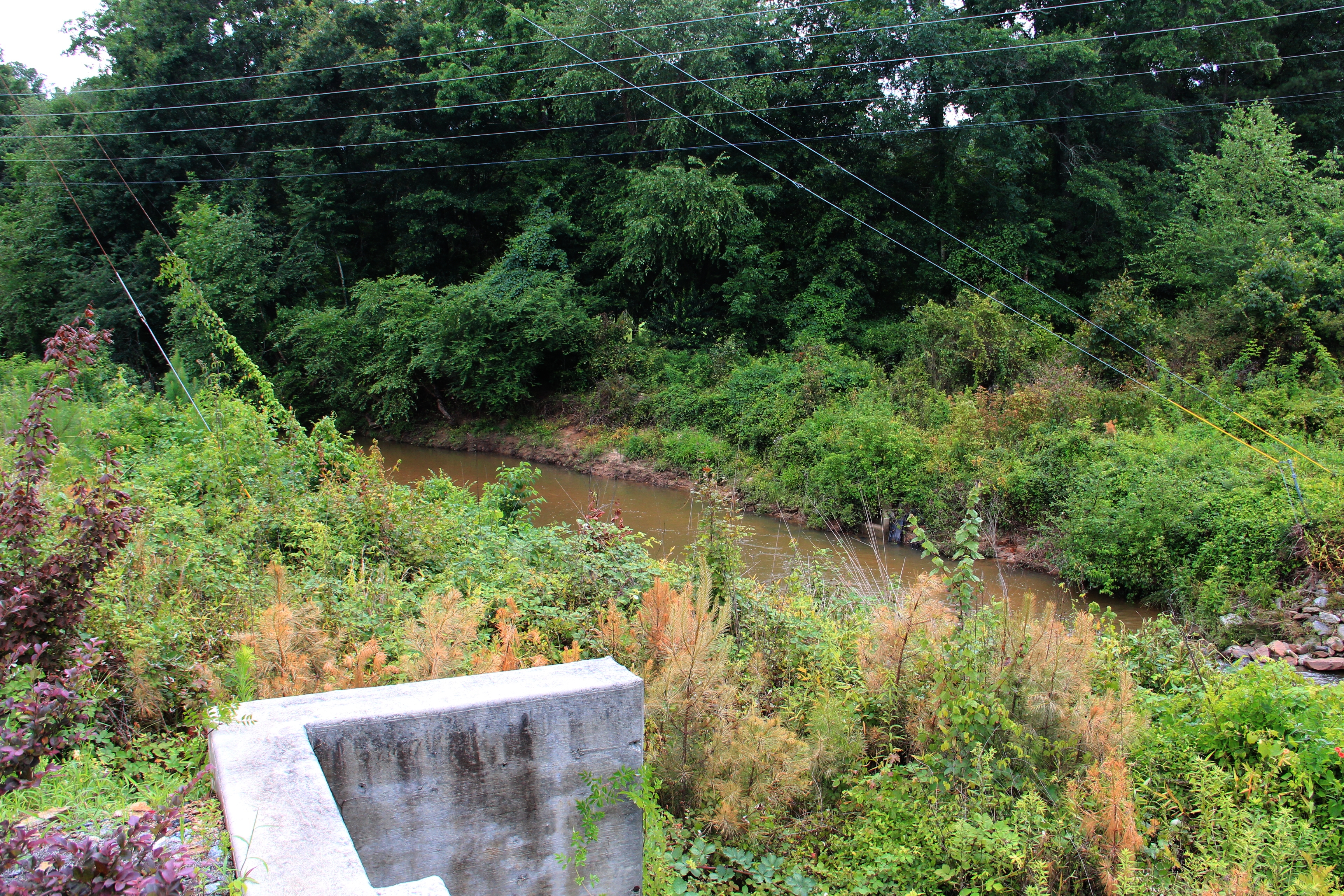 Johns Creek stream, Georgia